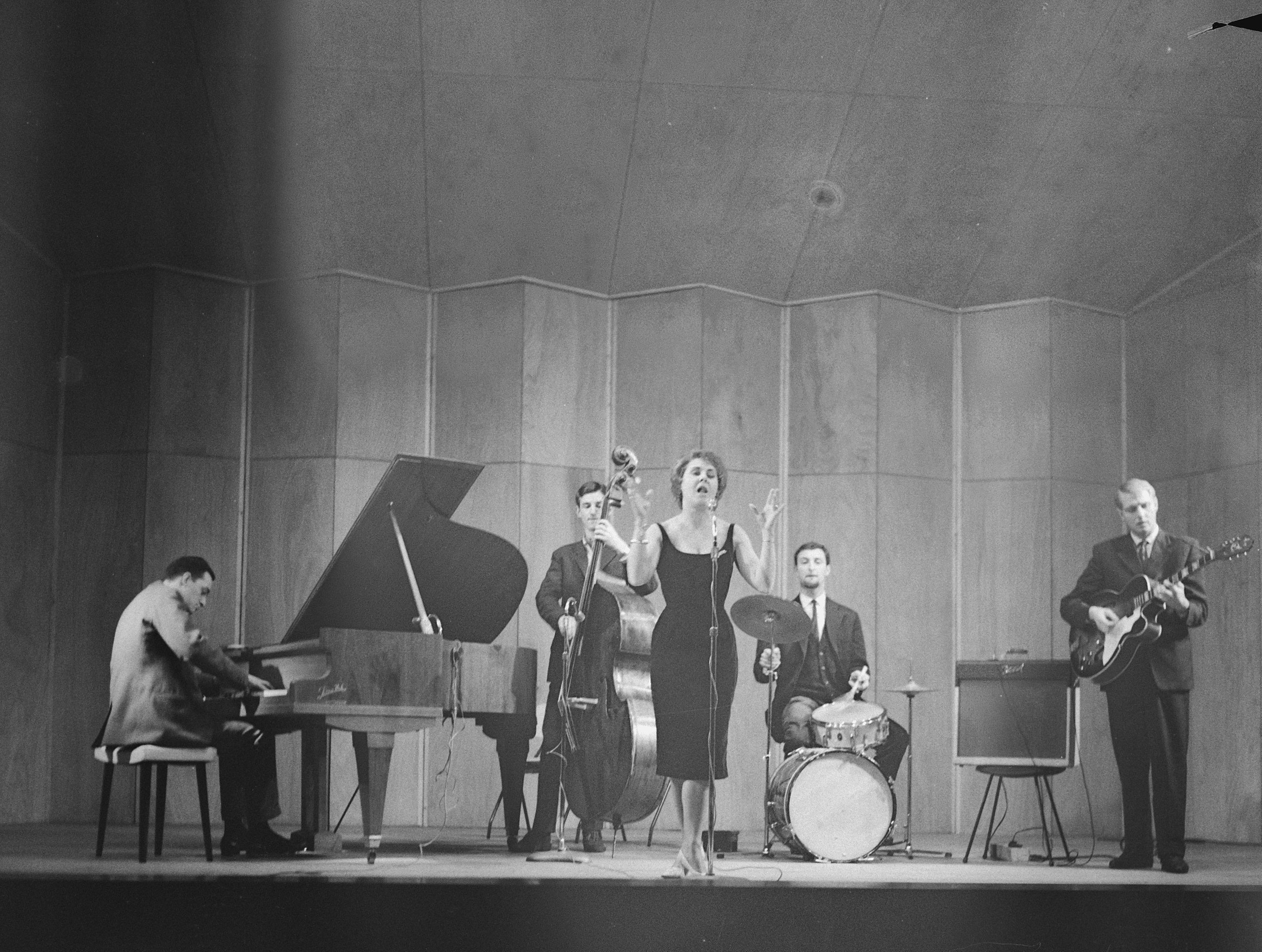 Jazz concert in Rotterdam. Left to right: Pim Jacobs (piano), Ruud Jacobs (bass), Rita Reys (vocals), Cees See (drums) & Wim Overgaauw (guitar)